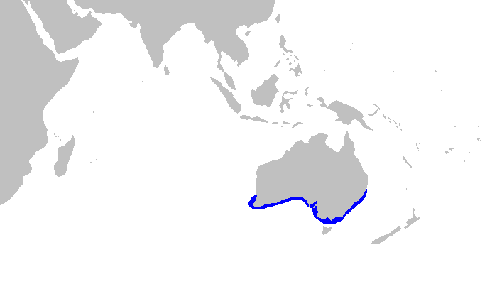 Distribution map for Orectolobus maculatus